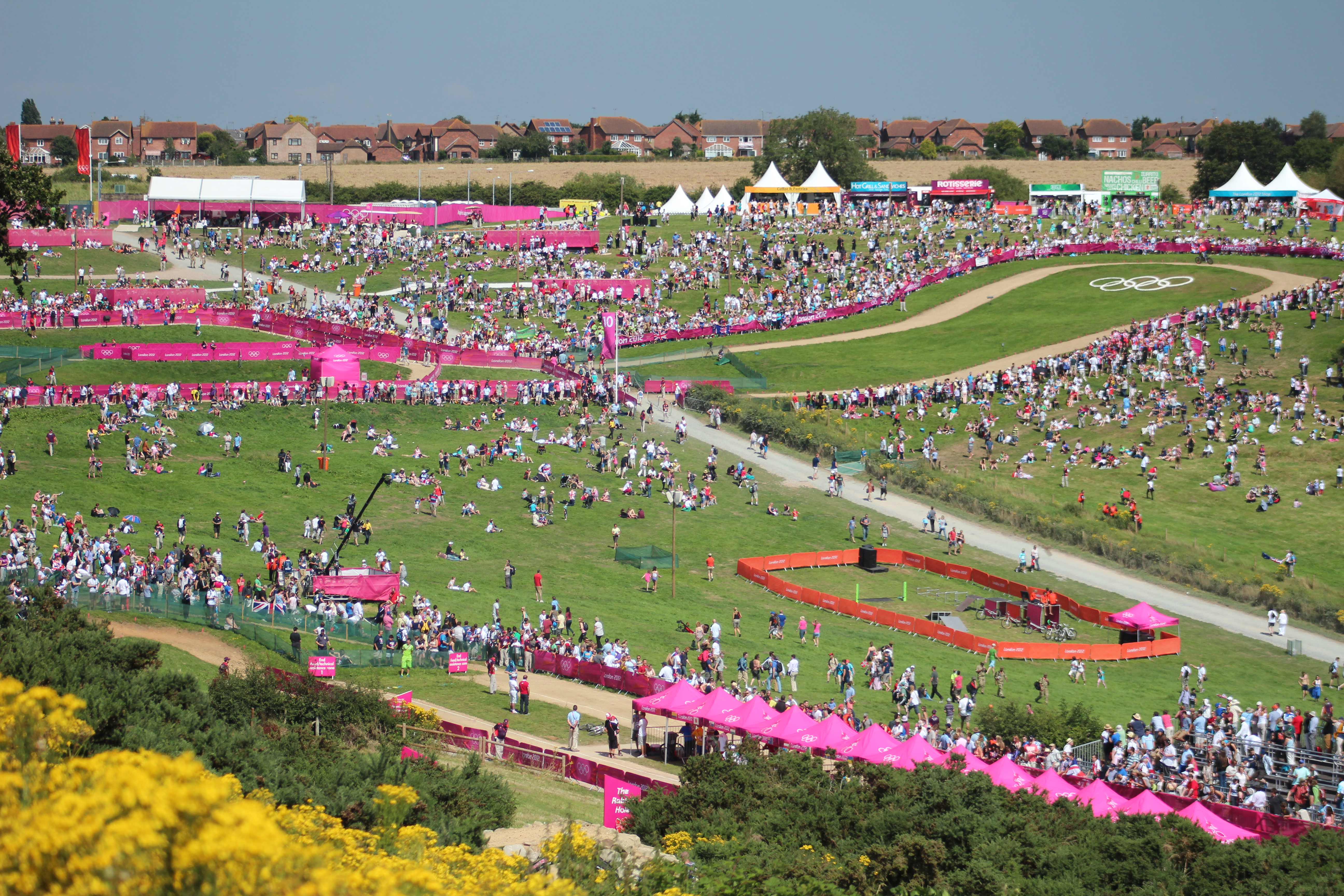 Hadleigh Farm MTB venue during the 2012 Summer Olympics. 11 August 2012 – Women's cross-country race